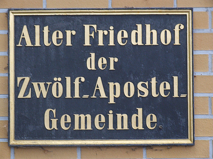 Entry to the Old Cemetary of the Twelve-Apostles-Parish at Berlin-Schöneberg